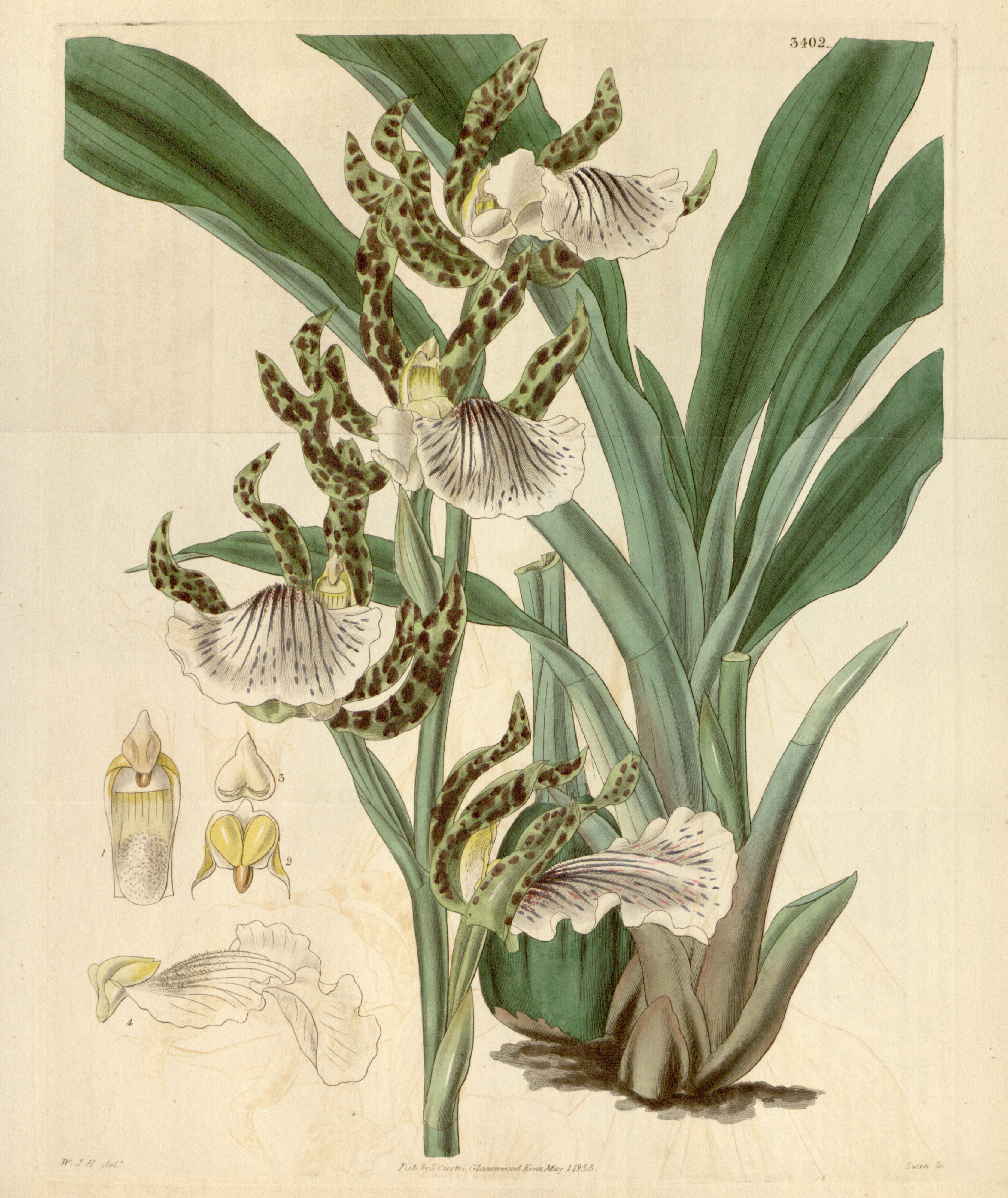 Illustration of Zygopetalum maculatum (as Zygopetalum mackayi, spelled Zygopetalum mackaii)